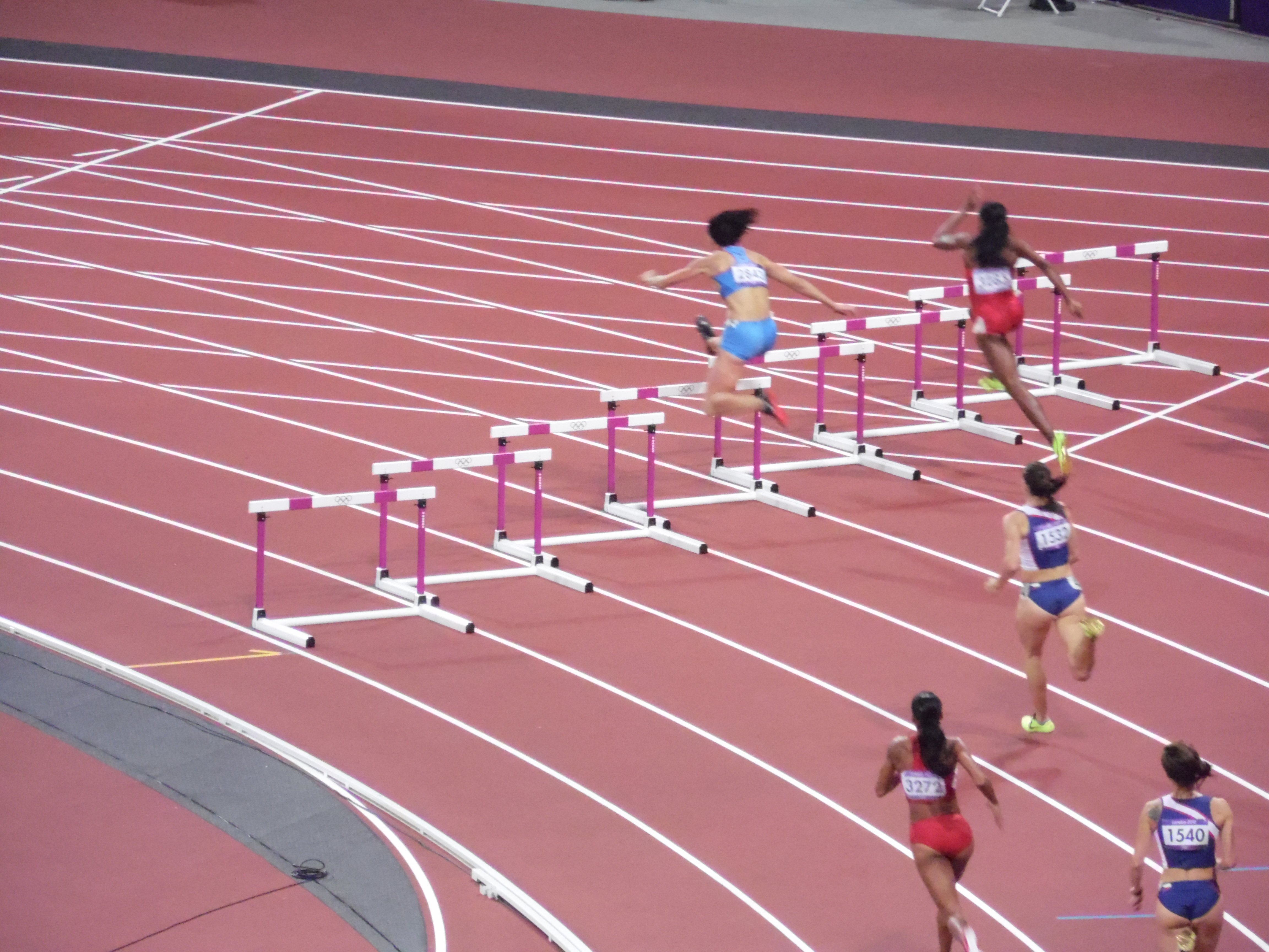 London 2012 Women 400m hurdles, Natalya Antyukh, T'erea Brown, Lashinda Demus, Zuzana Hejnova, Denisa Rosolova